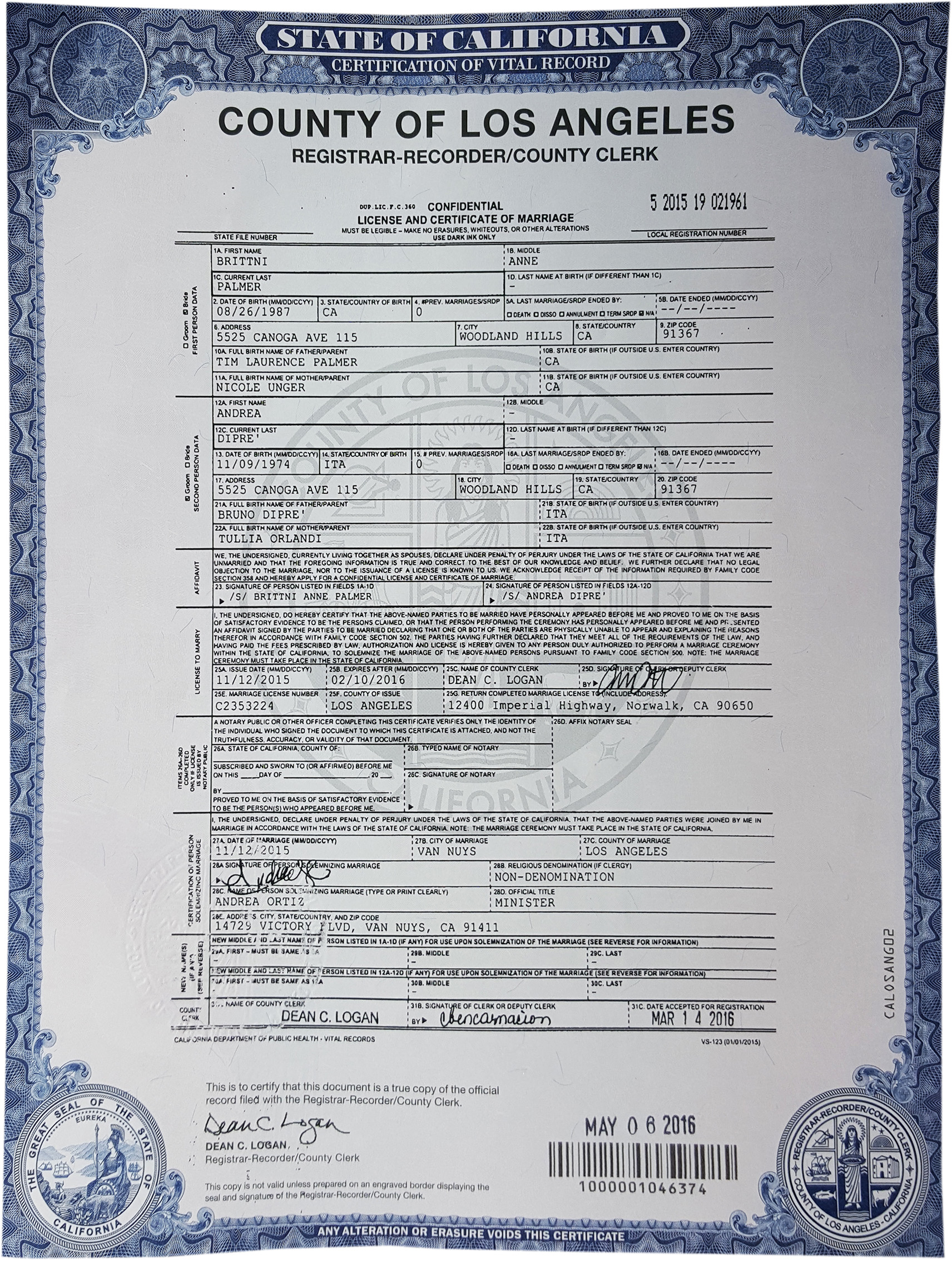 On November 12th, 2015 Riley Steele (Brittni Anne Palmer) married Andrea Diprè.